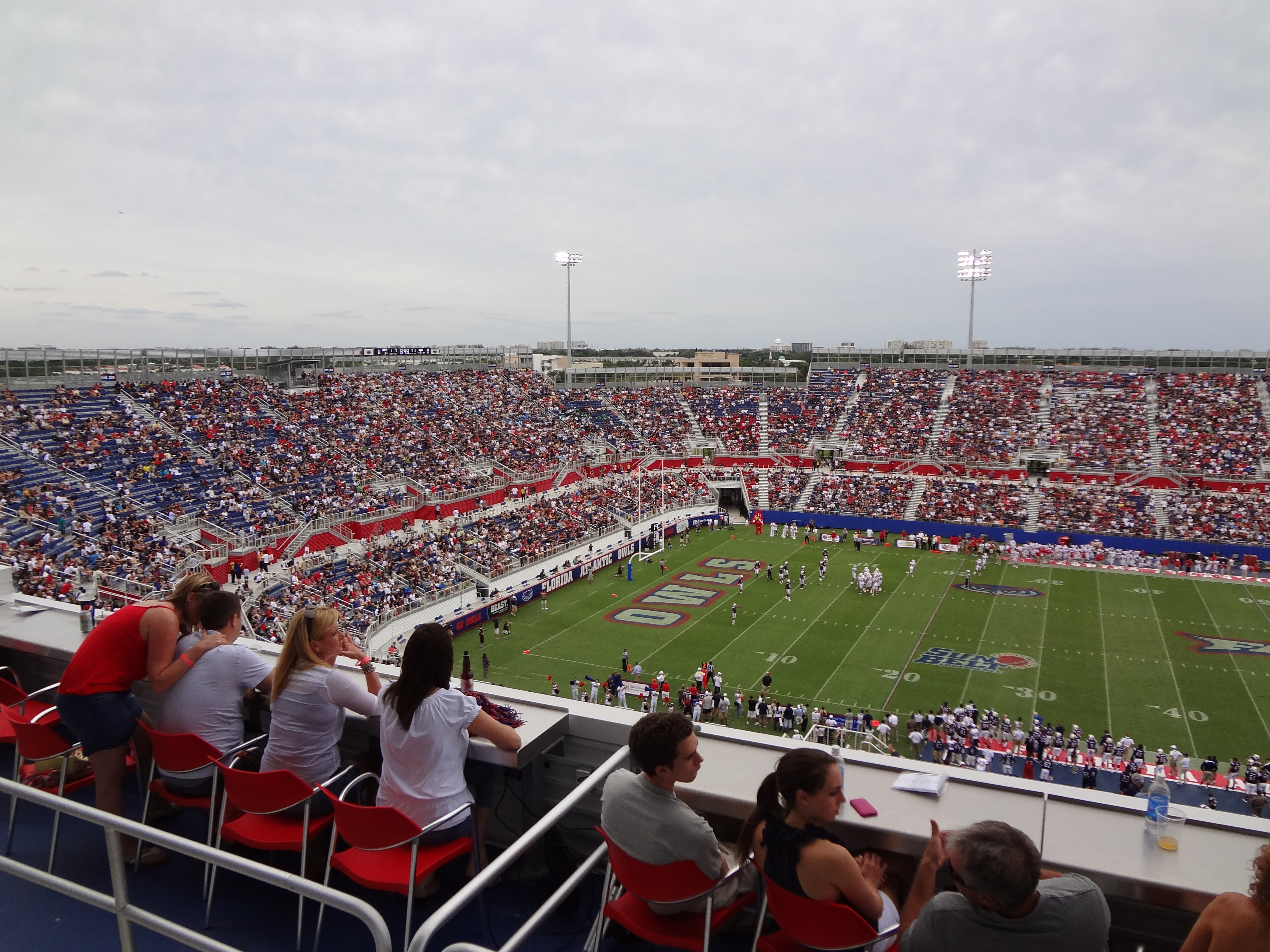 North endzone of FAU Stadium on Opening Day (October 15, 2011)